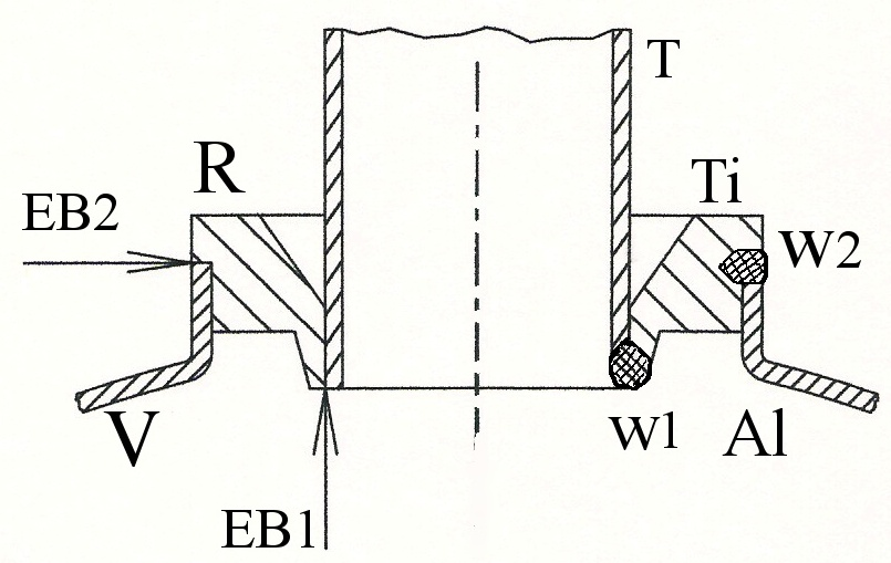 Dewar container